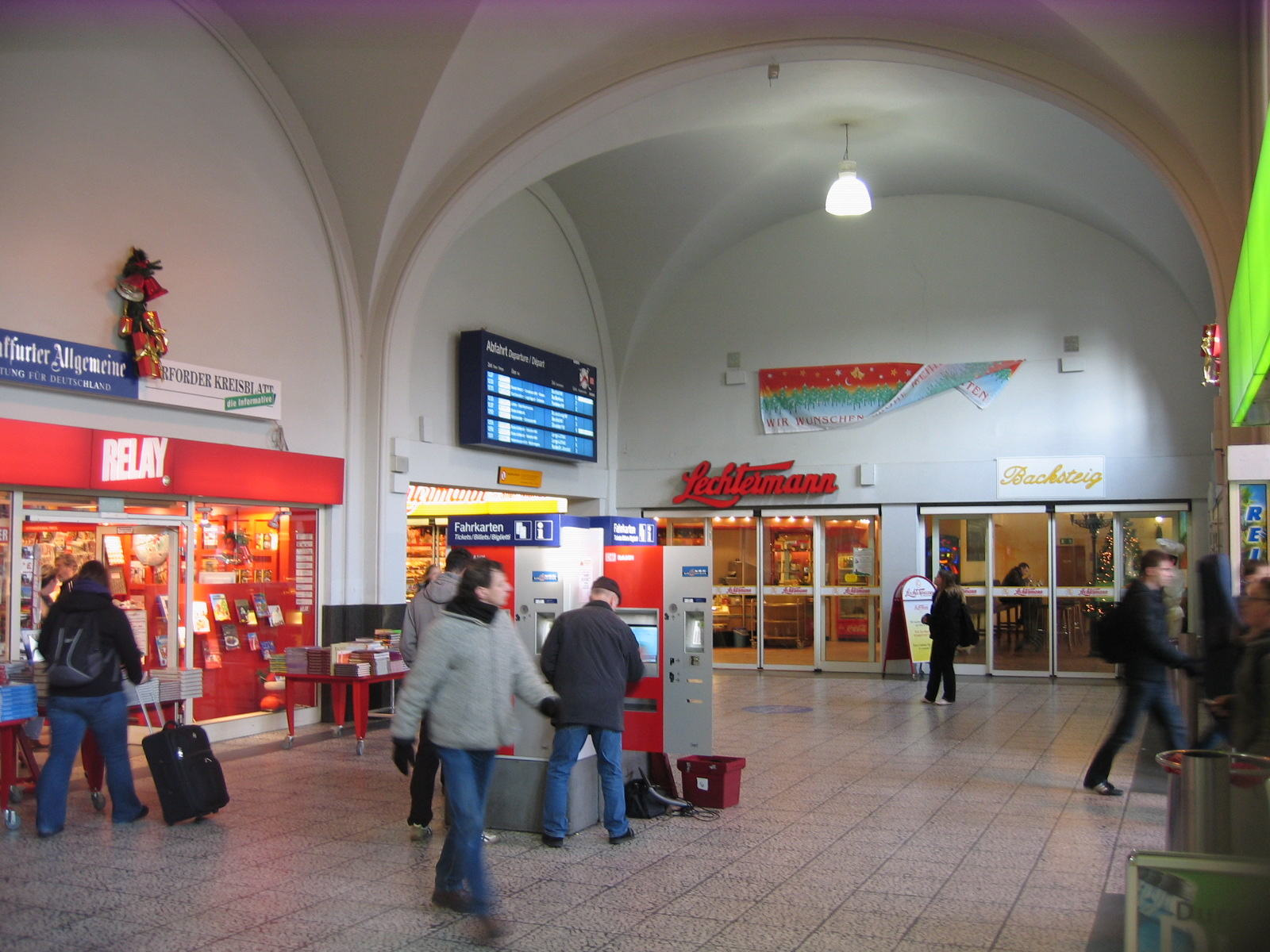 Train station in Herford, District of Herford, North Rhine-Westphalia, Germany.